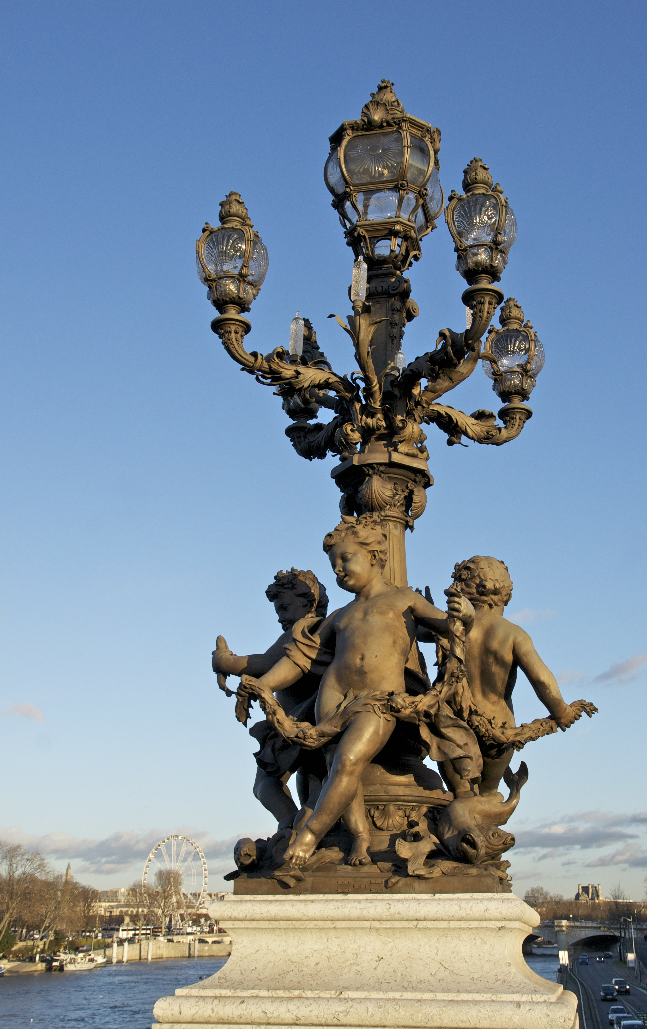 "Ronde des Amours" by Henri Désiré Gauquié, lamp located on the bridge Alexandre III in Paris.